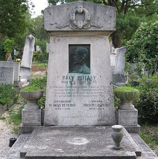 Tomb of Mihály Bély in Farkasréti Cemetery [46/7-1-24/25]